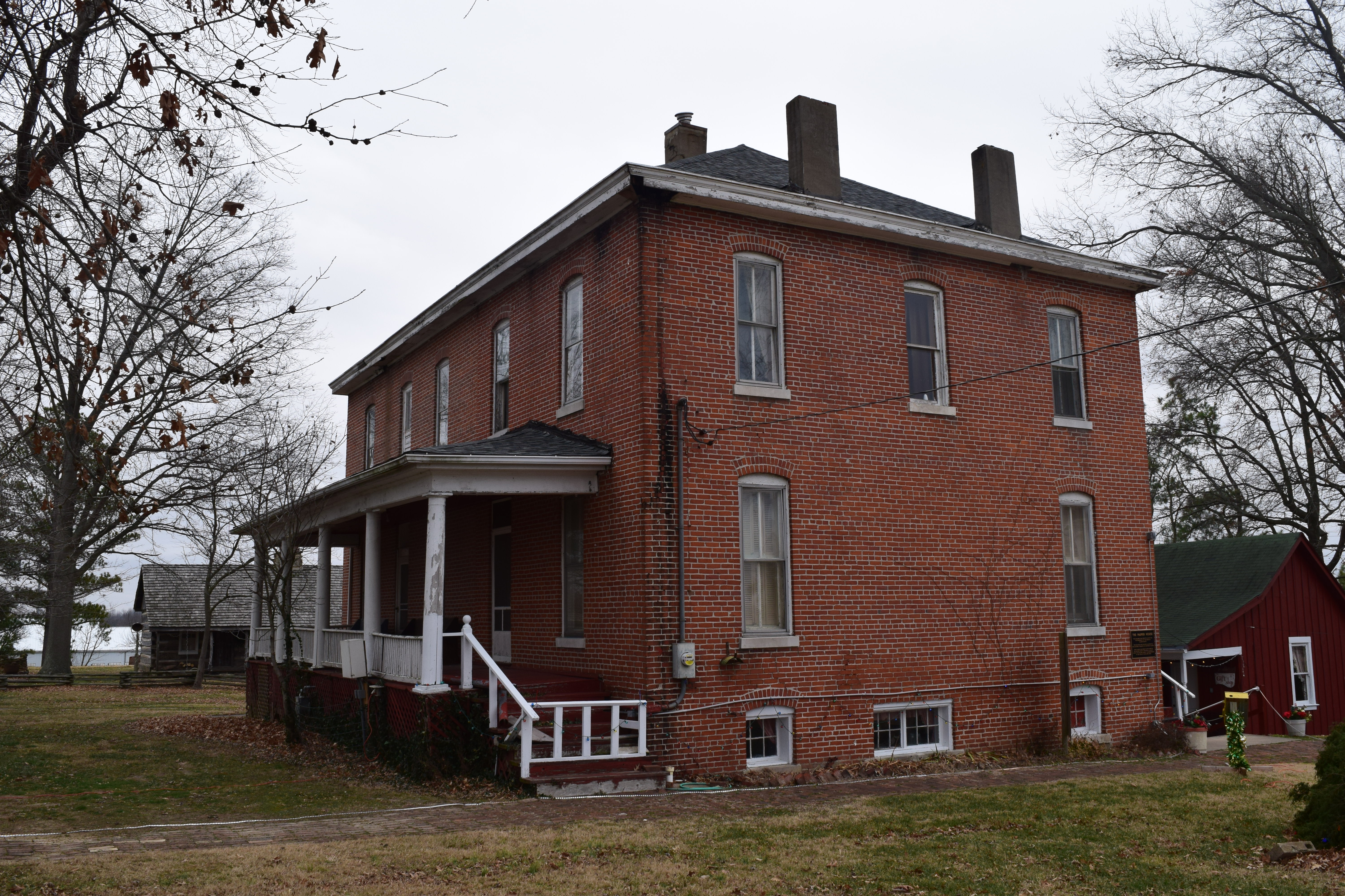 The farmhouse at the Saline County Poor Farm. The poor farm is located at 1600 Feazel Road in Harrisburg, Illinois and is listed on the National Register of Historic Places.